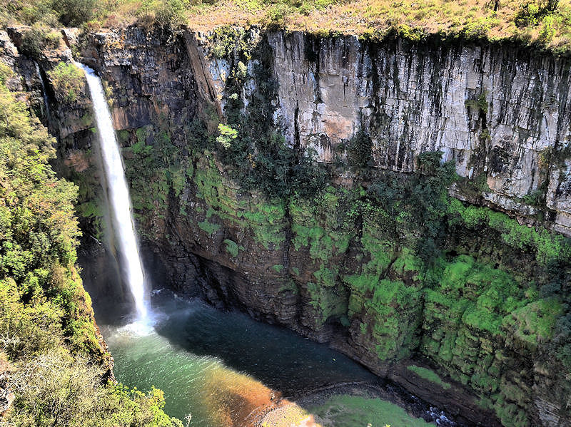 These waterfalls, which drop 65 m in two uninterrupted cascades, as well as the indigenous forest in the kloof below the falls, form an integral part of the natural beauty of the Mpumalanga escarpment